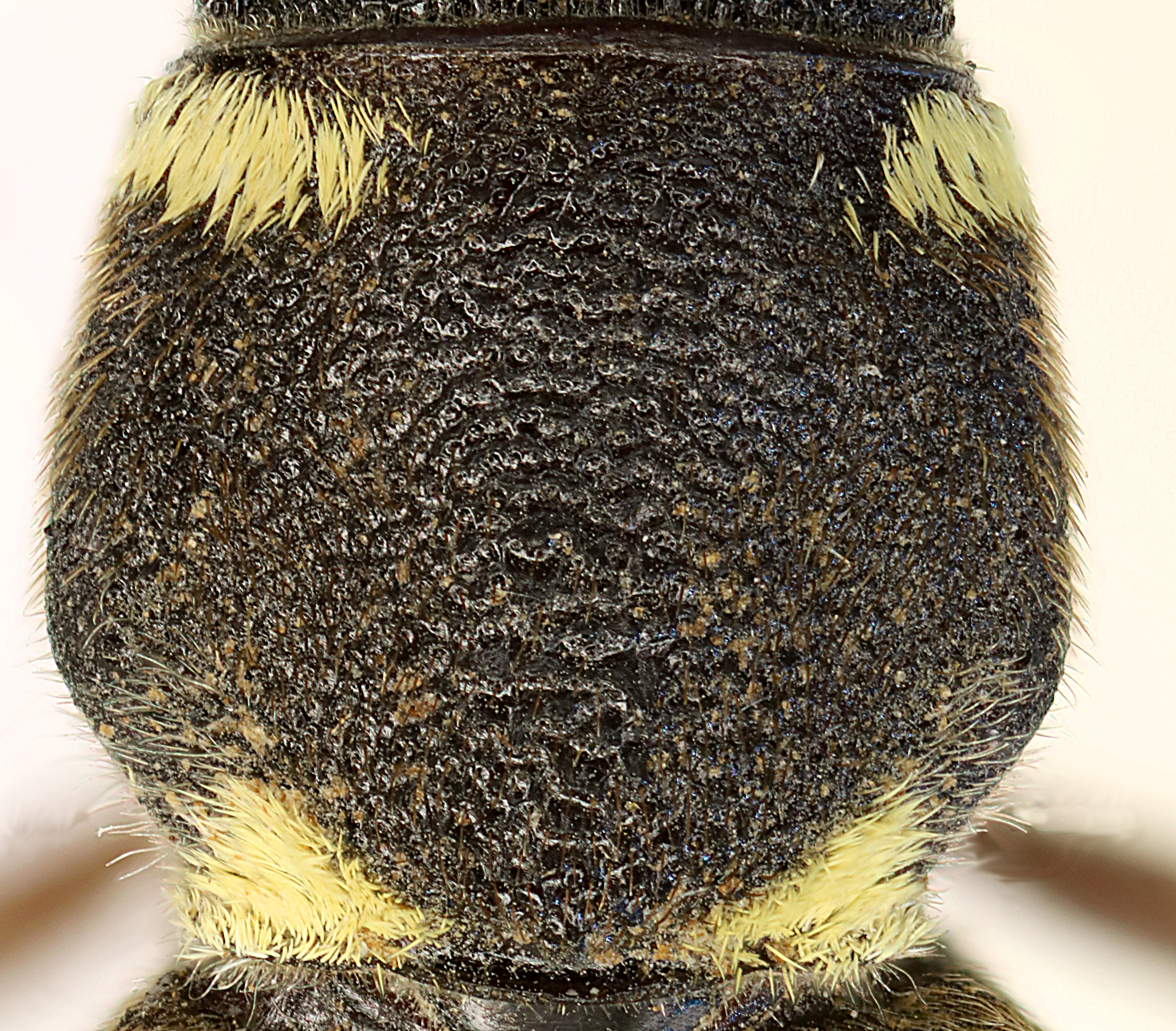 Pronotum of Xylotrechus arvicola